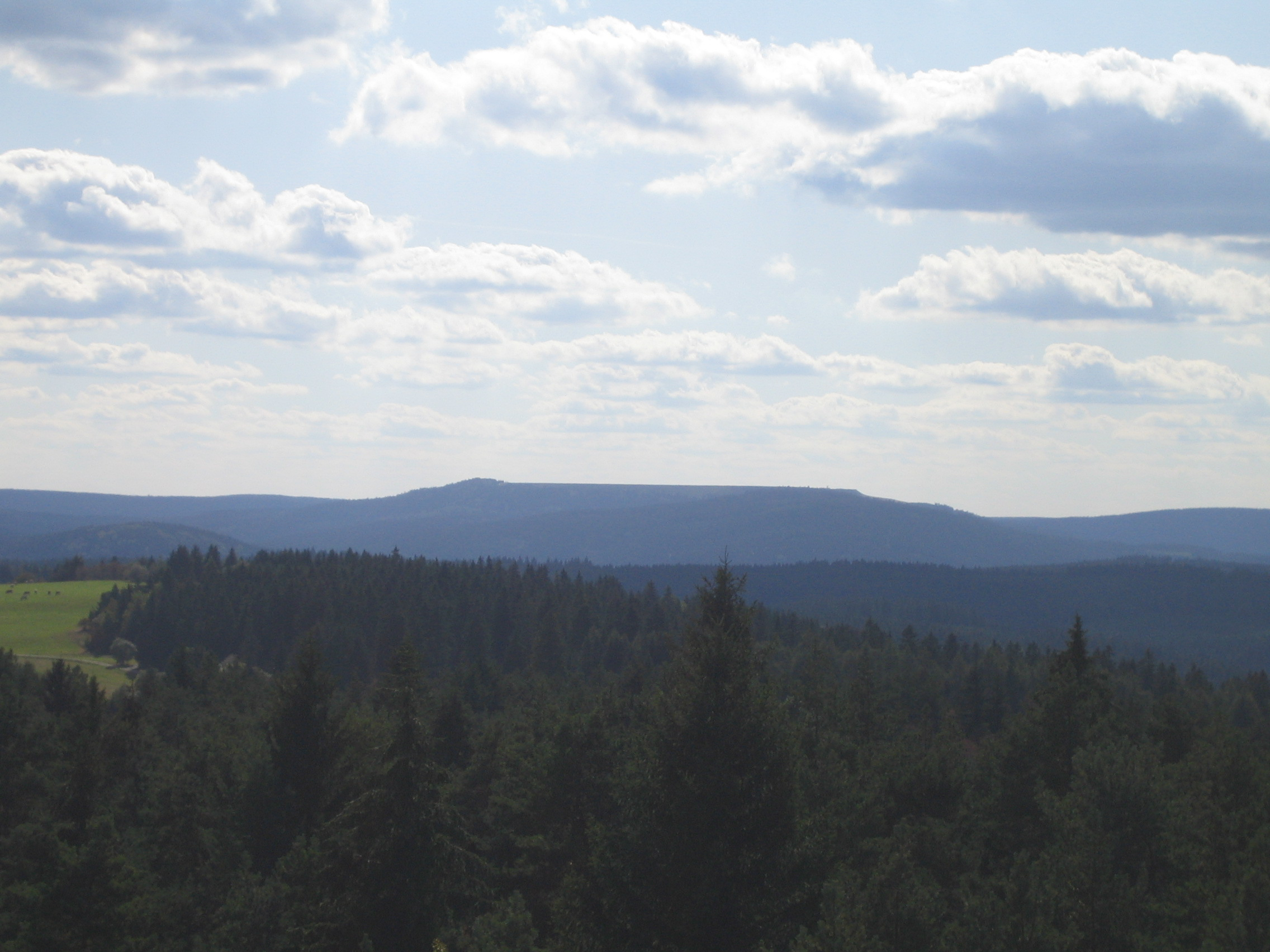 The picture shows the mountain "Großer Farmdenkopf" in Germany, seen from Oberweissbach.